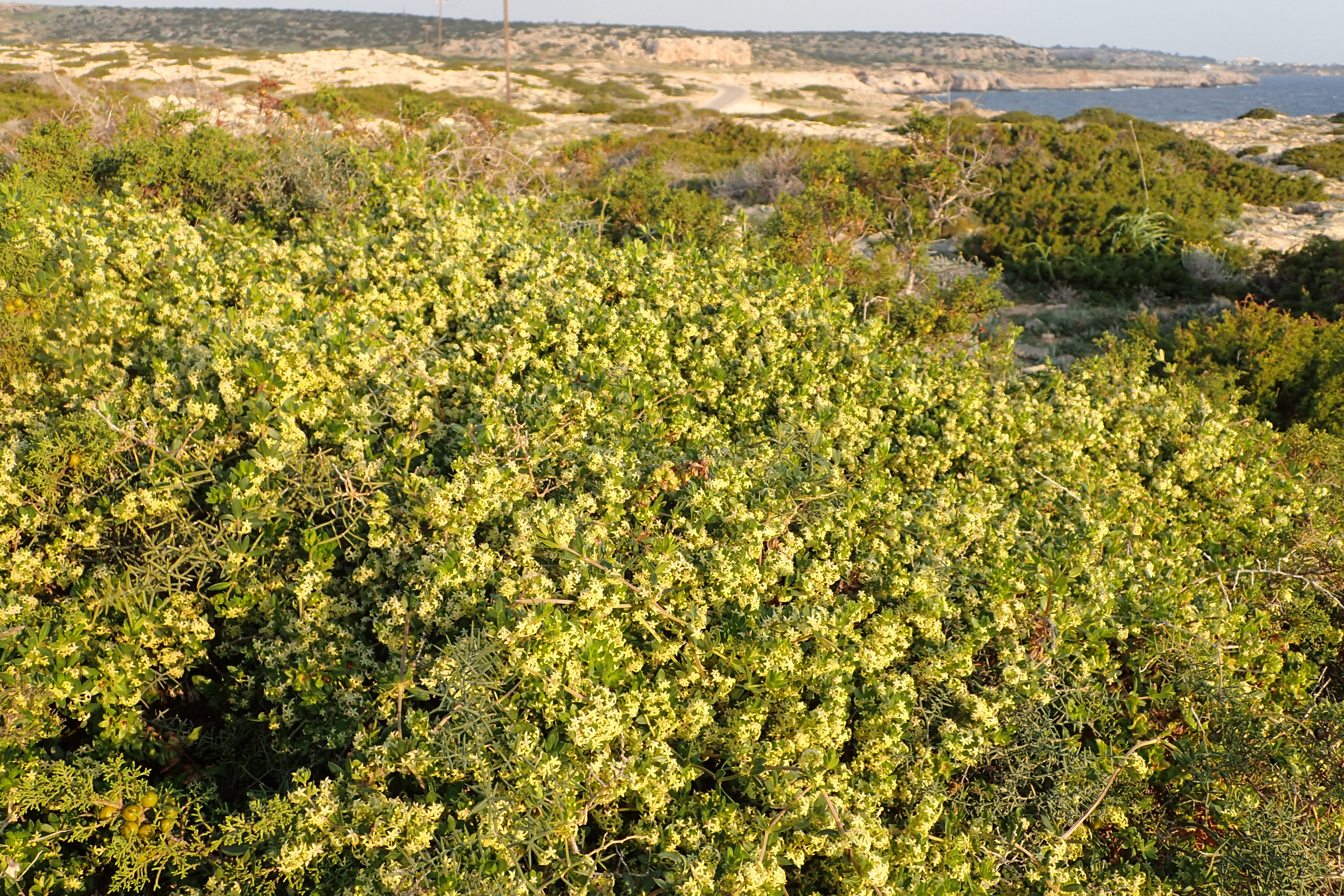 Rubia tenuifolia in Kavo Gkreko, Cyprus